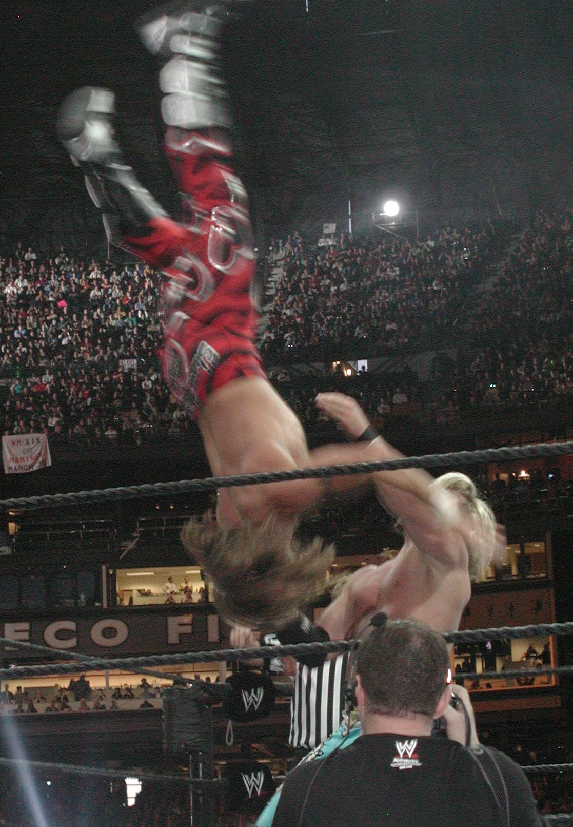 Shawn Michaels with a Top-rope Moonsault on Chris Jericho. Safeco Field, Seattle, WA, March 30en:2003.